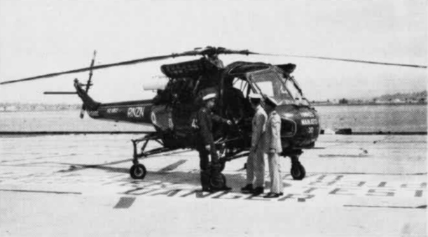 A Royal New Zealand Navy Welstland Wasp HAS.1 from the Leander-class frigate HMNZS Waikato (F55) at Naval Air Station North Island, California (USA). Next to the helicopter is the first Wasp RNZN pilot Lt. Robert H. Carnie, and Sgt. C.E. Glazebrook, who, like the maintenance personell was a member of the RNZ Air Force.